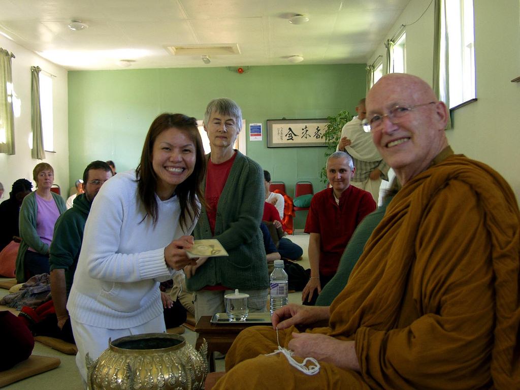 Ajahn Sumedho at Amaravati Buddhist Monastery, UK